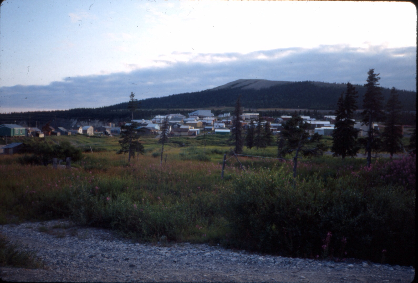 Photo of the city of Elim, Alaska